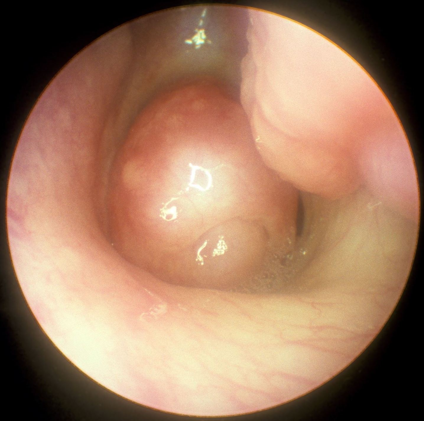 This is an endoscopic view through the left nasal cavity. The the large round central mass which can be seen filling the posterior nasal cavity [Choana] is a large choanal polyp which originates from the opposite [right] nasal cavity. The ridge seen in the 2 o'clock position is the posterior end of the left inferior turbinate.